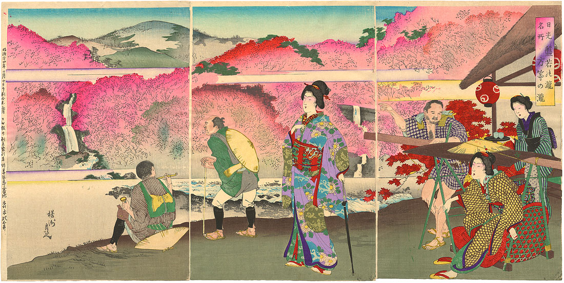 From the triptych series Nikko Meisho - Famous Places in Nikko - scene of Hannya and Hoto Waterfalls